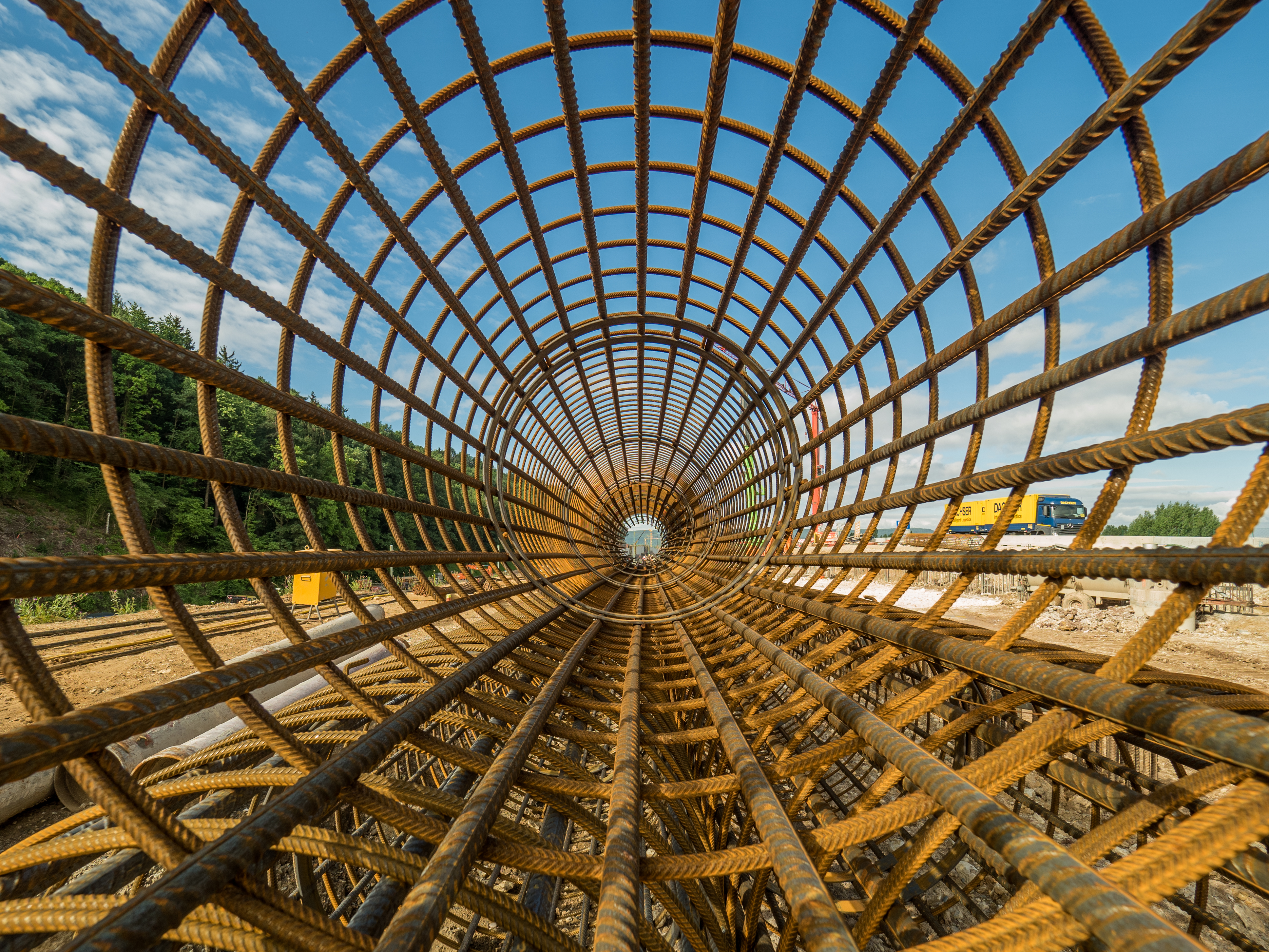 Reinforcement cage for bored pile on the ABS construction site in Nuremberg Ebensfeld